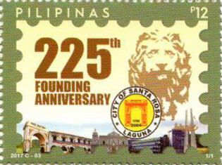 225th Founding Anniversary of Sta. Rosa City, Laguna